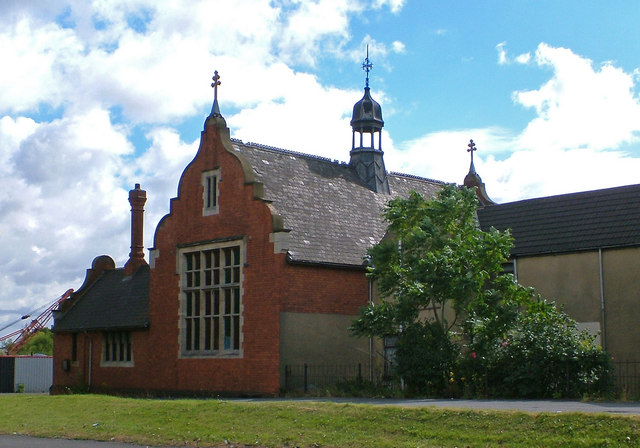 Ukrainian Catholic Church, Scunthorpe. Pevsner says "UKRAINIAN CATHOLIC CHURCH OF THE HOLY CROSS, High Street East, Scunthorpe. 1894 by James Thropp, the Lindsey County Surveyor, built as the Police Headquarters and Magistrates' Courts. Brick and stone, Jacobean, with shaped gables and exceedingly tall polygonal chimneys.".